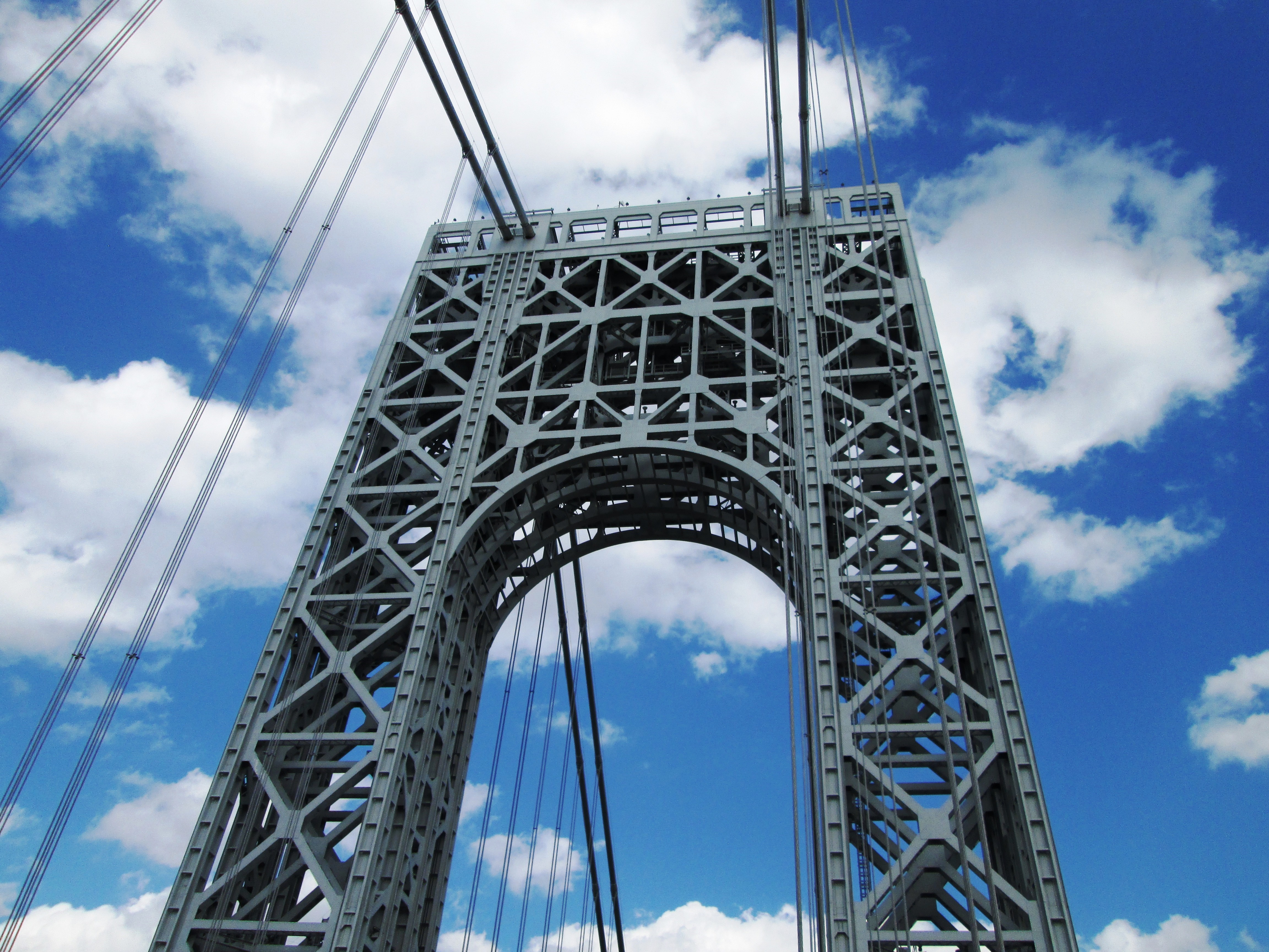 Looking east up at the west tower of the George Washington Bridge from the south walkway.